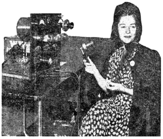 Publicity photograph of Dorothy Gish, re-creating her 1920 broadcast over the original DeForest OT-10 radio transmitter used by the Detroit News Radiophone station (8MK). It was taken in August 1941 during a celebration of WWJ's 21st anniversary .